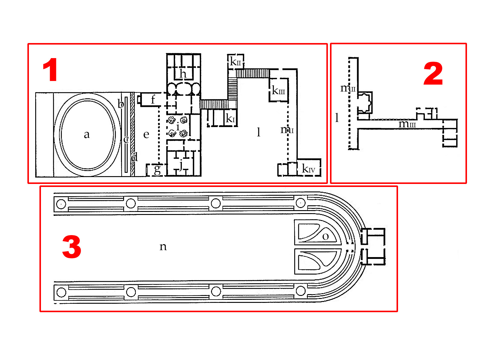 Villa Tusci by Gothein